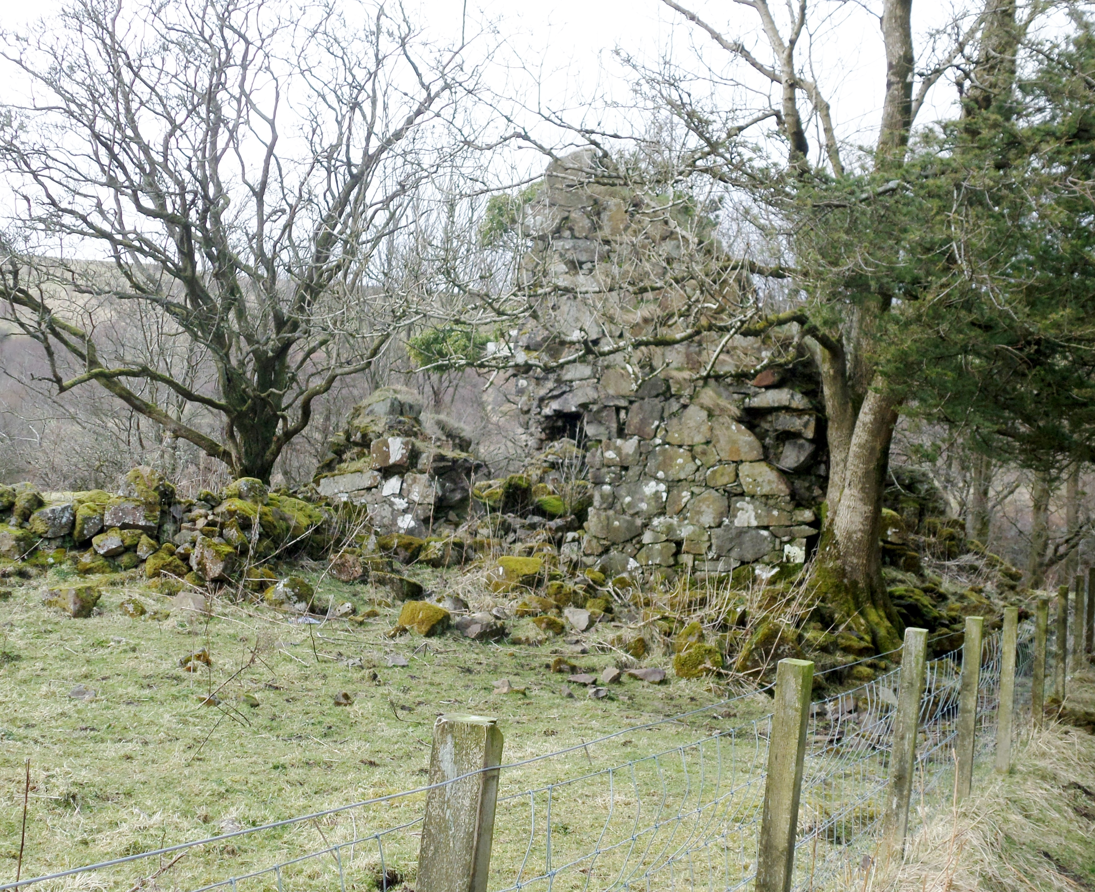 South facing aspect at the Old Cowden Hall on the estate, Neilston, East Renfrewshire, Scotland.